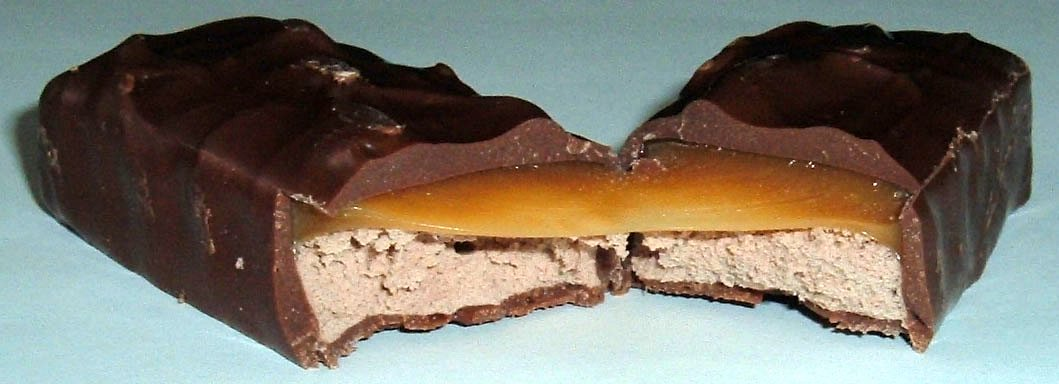 This is the US version of the Milky Way (confectionery) Dark, purchased Feb. 2005